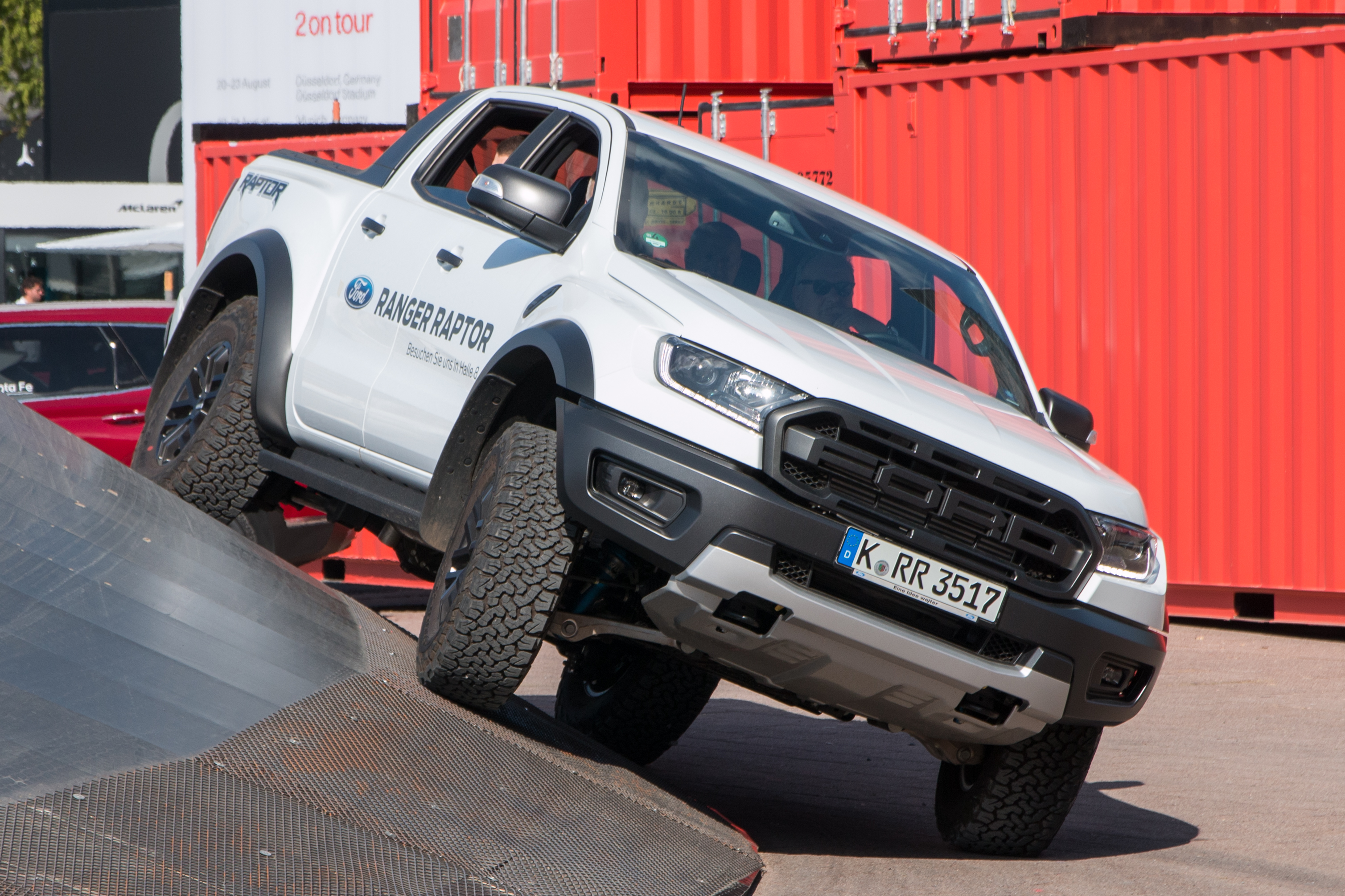 Ford Ranger Raptor